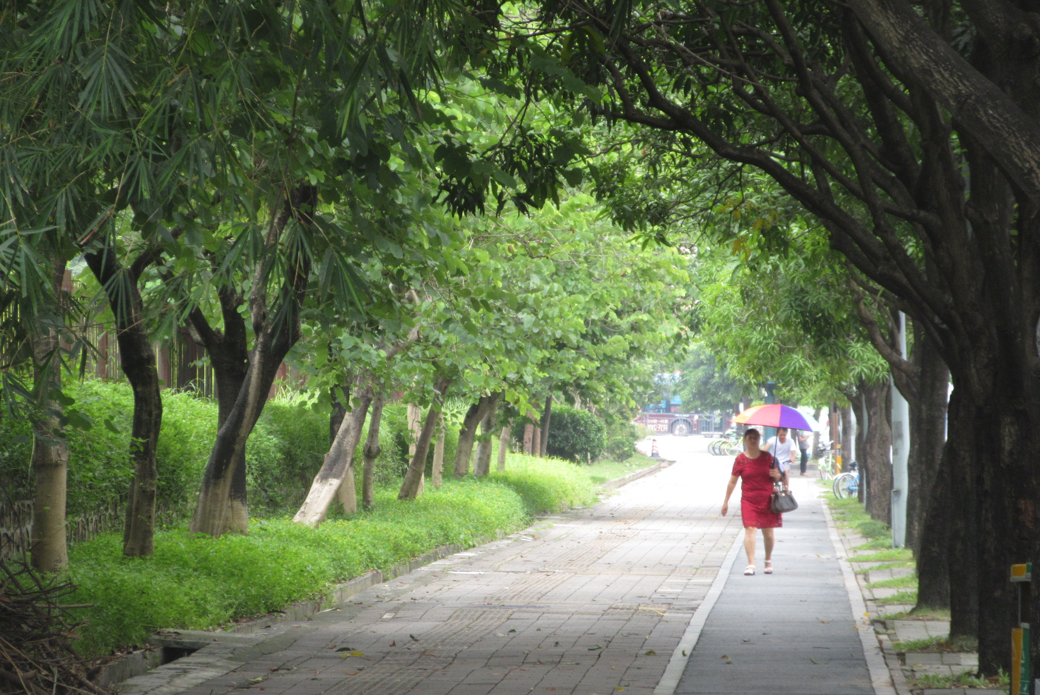 蓮花山 (深圳), Lianhua Shan Park, GD Greenway, Futian District, Shenzhen